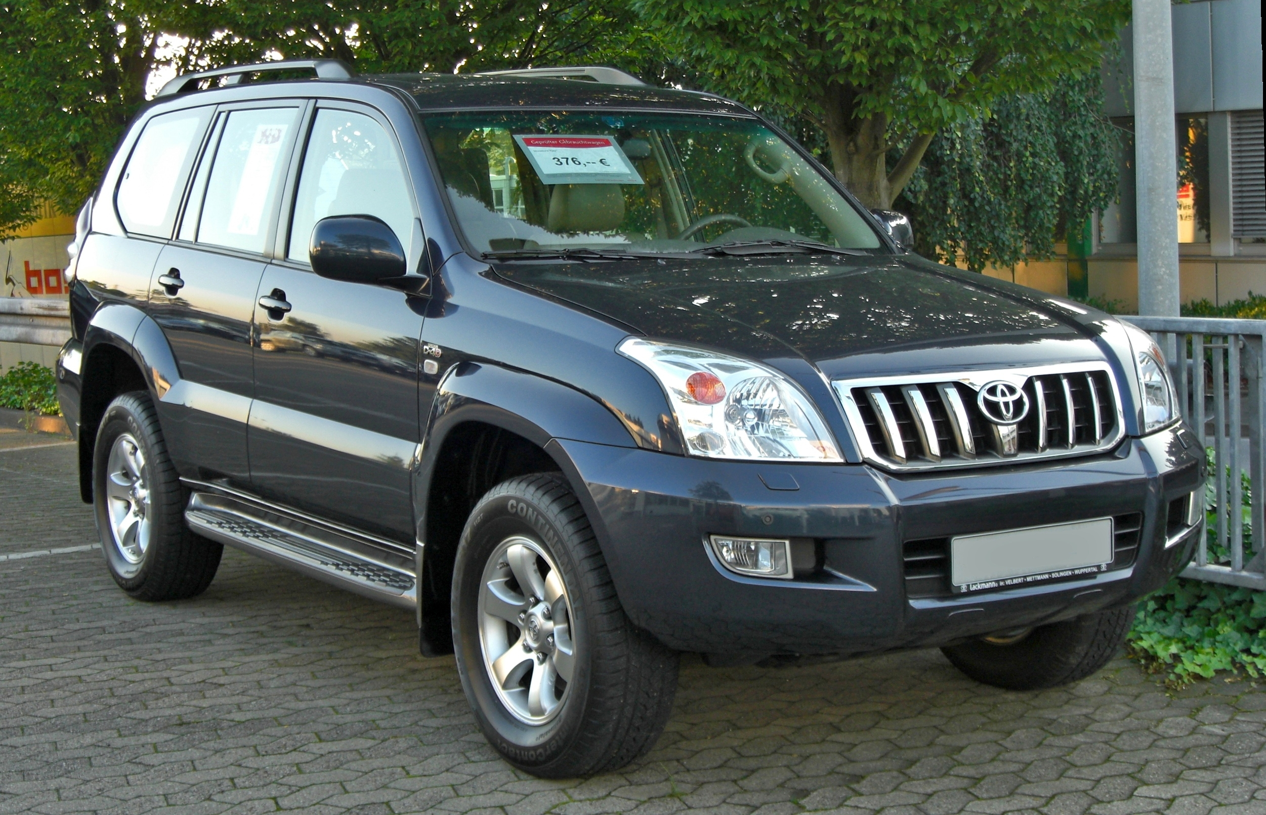 Toyota Land Cruiser 120